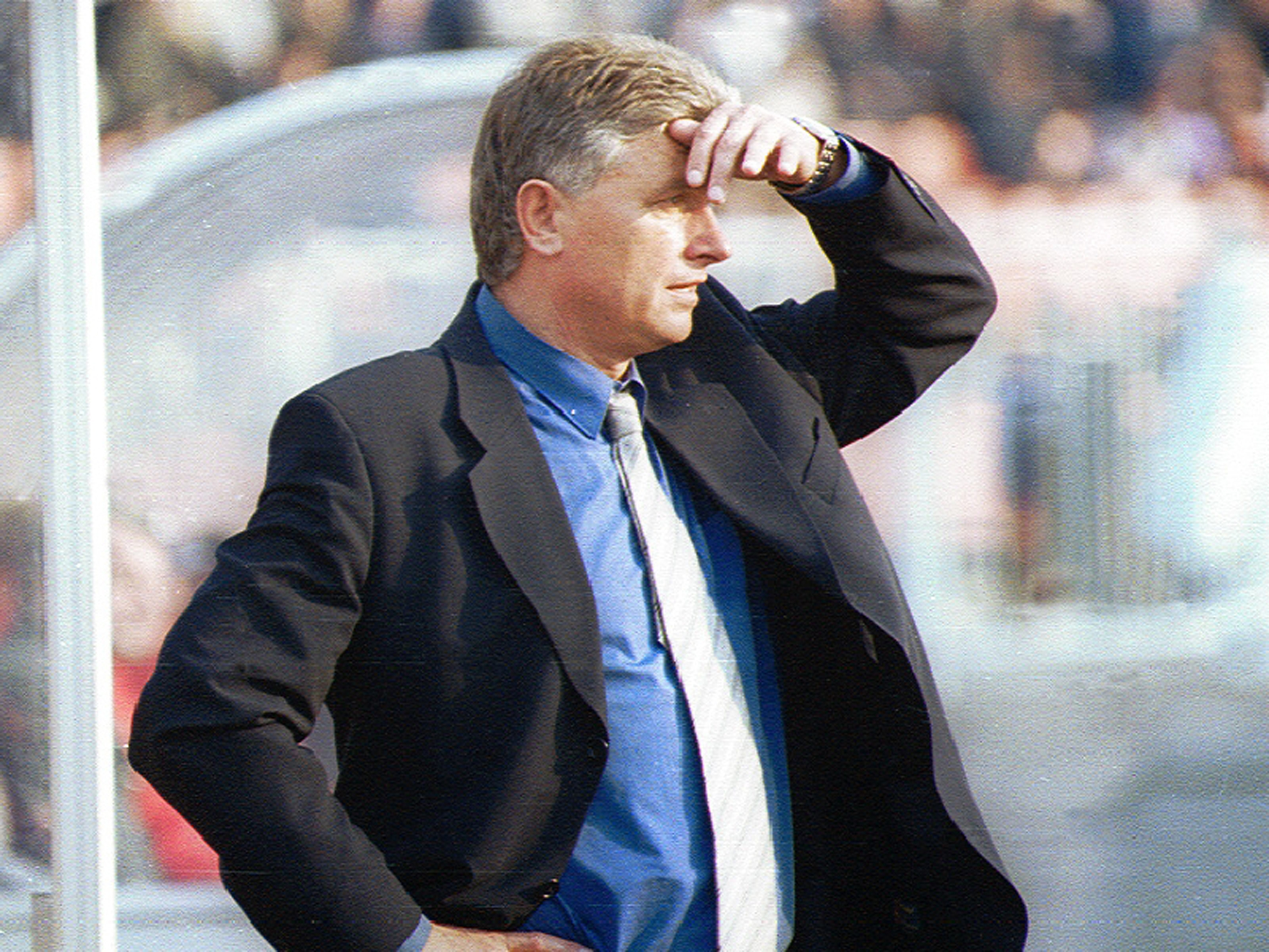 Viktor Prokopenko, Ukrainian football manager